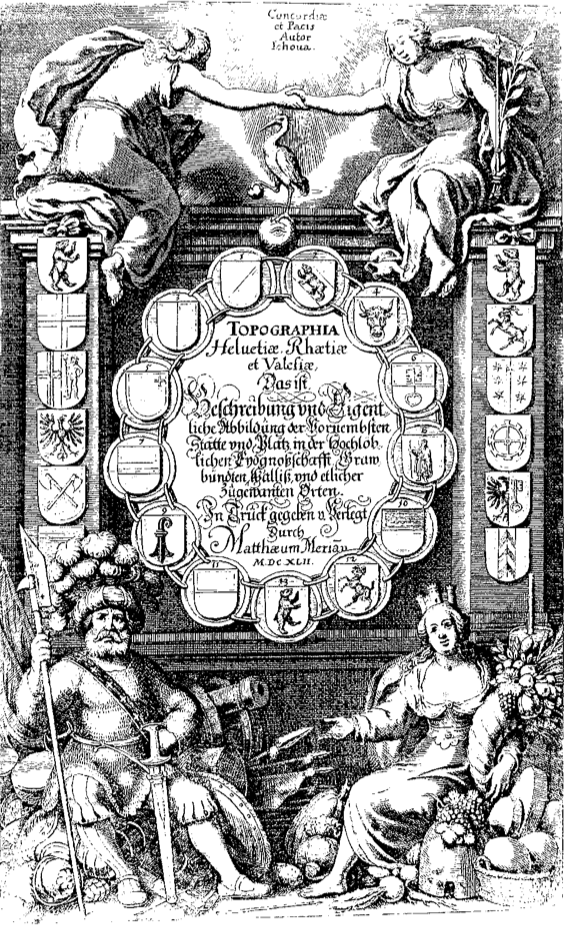 Title page of Matthaeus Merian, Topographia Helvetiae, Rhaetiae et Valesiae. Coats of arms of the Thirteen Cantons as a ring surrounding the title, numbered in order of precedence as: Zürich, Bern, Lucerne, Uri, Schwyz, Unterwalden, Zug, Glarus, Basel, Fribourg, Solothurn, Schaffhausen, Appenzell. Coats of arms of associates in vertical rows on either side: left: Abbey of St. Gallen, Grey League, League of the Ten Jurisdictions, Rottweil, Biel, right: City of St. Gallen, League of God's House, Valais, Mulhouse, Geneva, Neuchatel. Text in the title panel: TOPOGRAPHIA Heluetiae, Rhaetiae et Valesiae, Das ist, Beschreibung und Eigentliche Abbildung der Vornembsten Stätte und Plätz in der Hochlöblichen Eydgnoszschafft, Grawbündten, Wallisz und etlicher Zugewanten Orten. In Truck gegeben u Verlegt durch Matthaeum Merian M. DC. XLII. Above the title the stork as the printer's device of Merian, an the inscription Concordiae et pacis autor ichoua This is the title page of the first edition of Matthäus Merian's (1593-1650) famous and richly illustrated topography of Switzerland, containing two general maps (of Germany and Switzerland), and 74 copper-engraved views on 55 plates by Merian and others; the text is by Martin Zeiler (1589-1661).[1]